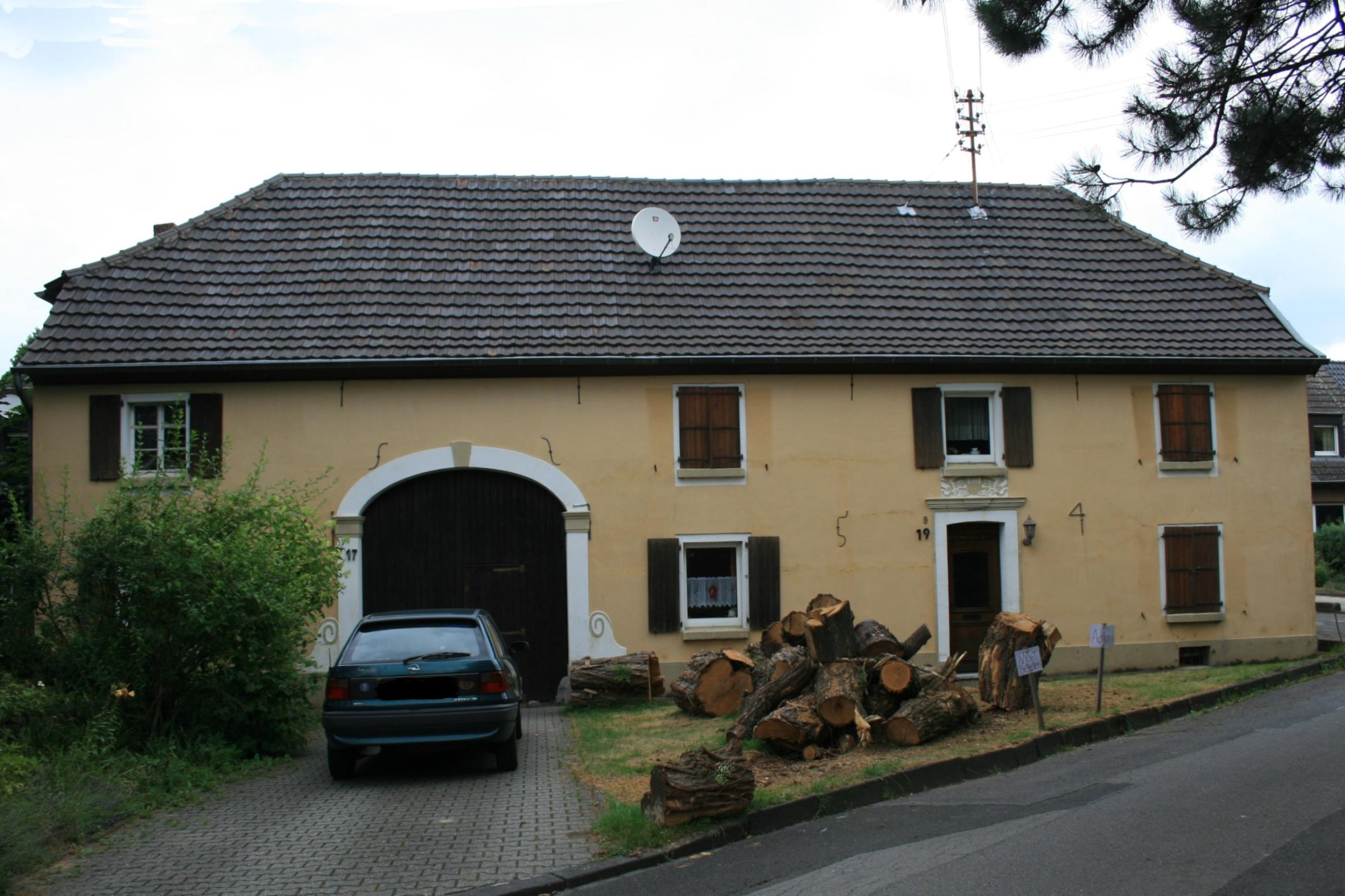 Cultural heritage monument No. A 050 in Mönchengladbach